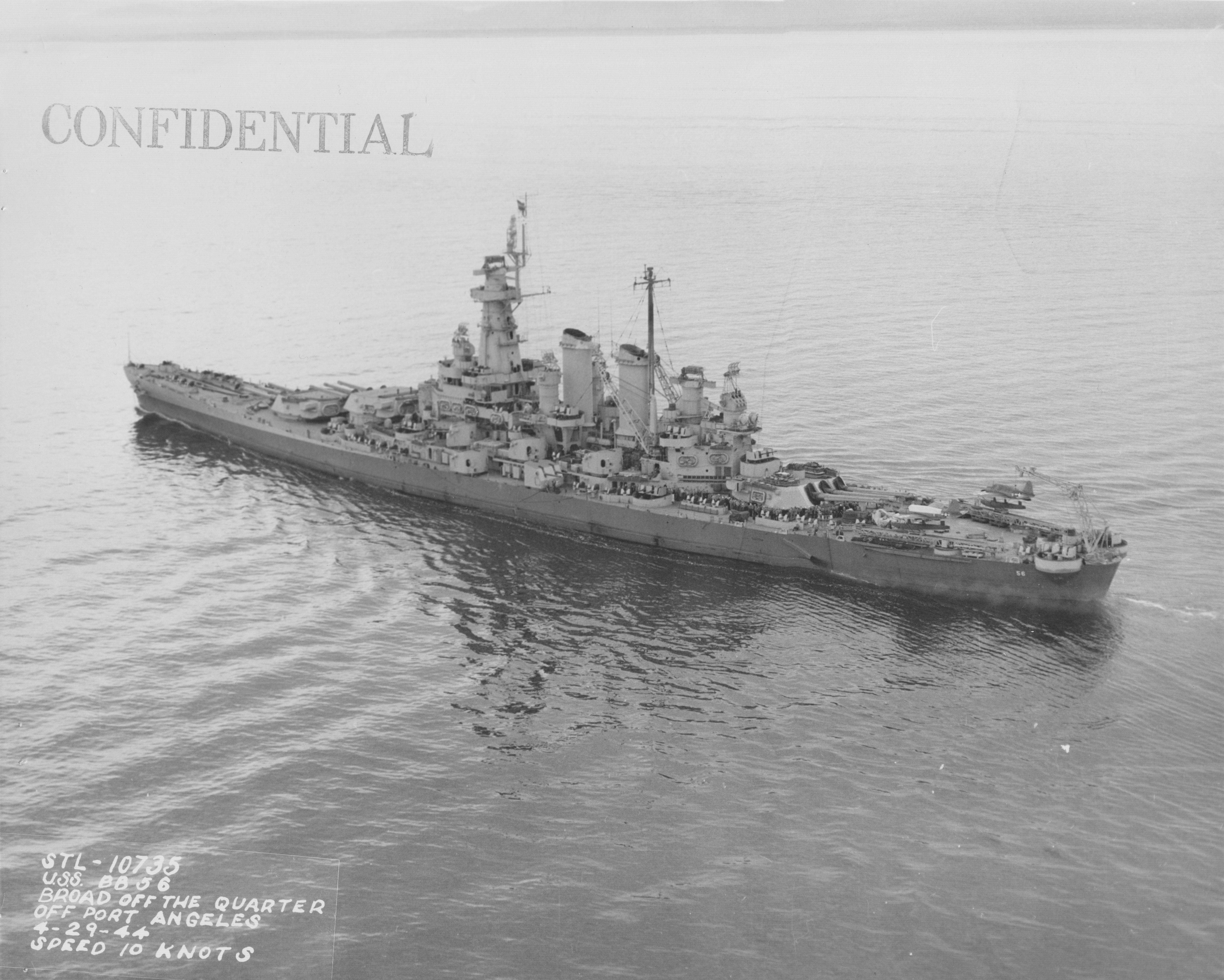 Aerial view of the USS Washington off Port Angeles. Box: 19LCM, BB-55 to BB-56; Folder: H / BS 63997 - 64004 STL-10735